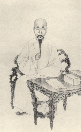 HUANG Shisan, scholar of the Qing Dynasty.